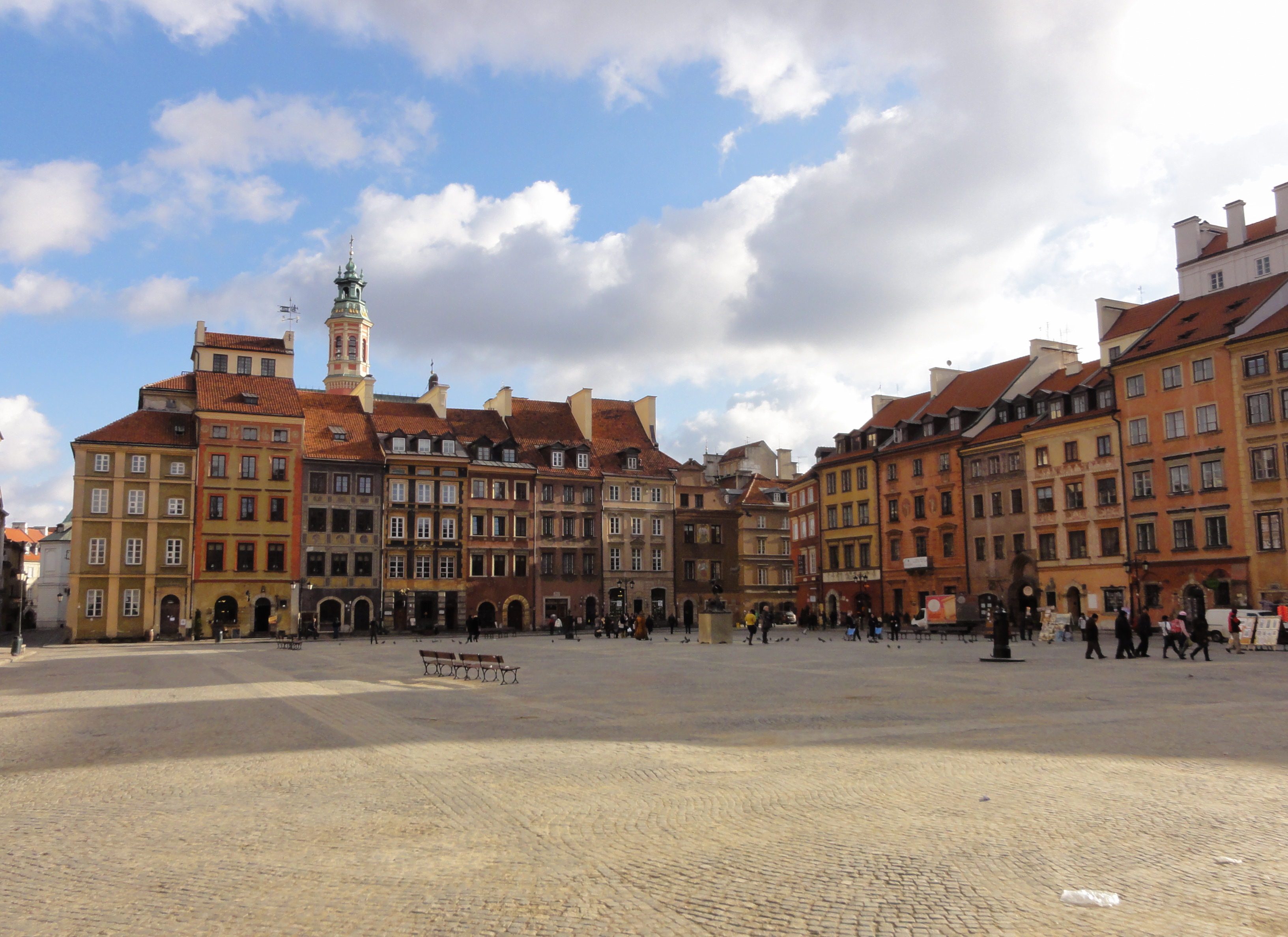 Old Town Market Square in Warsaw